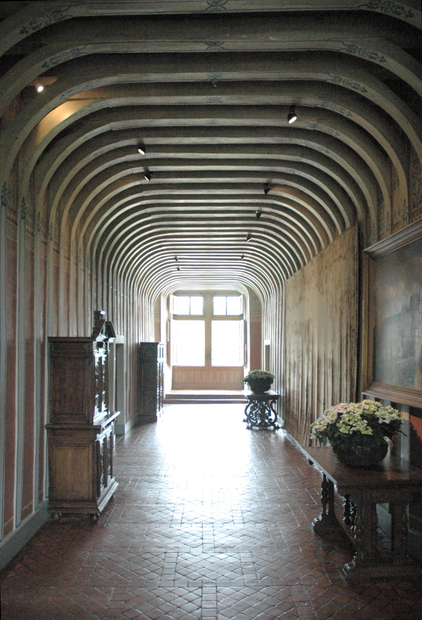 Château de Chenonceau, vestibule on the top floor